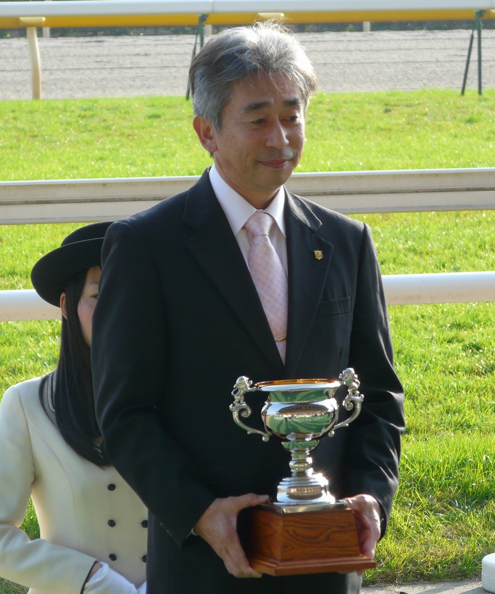 Yuichi-Shikato20101128